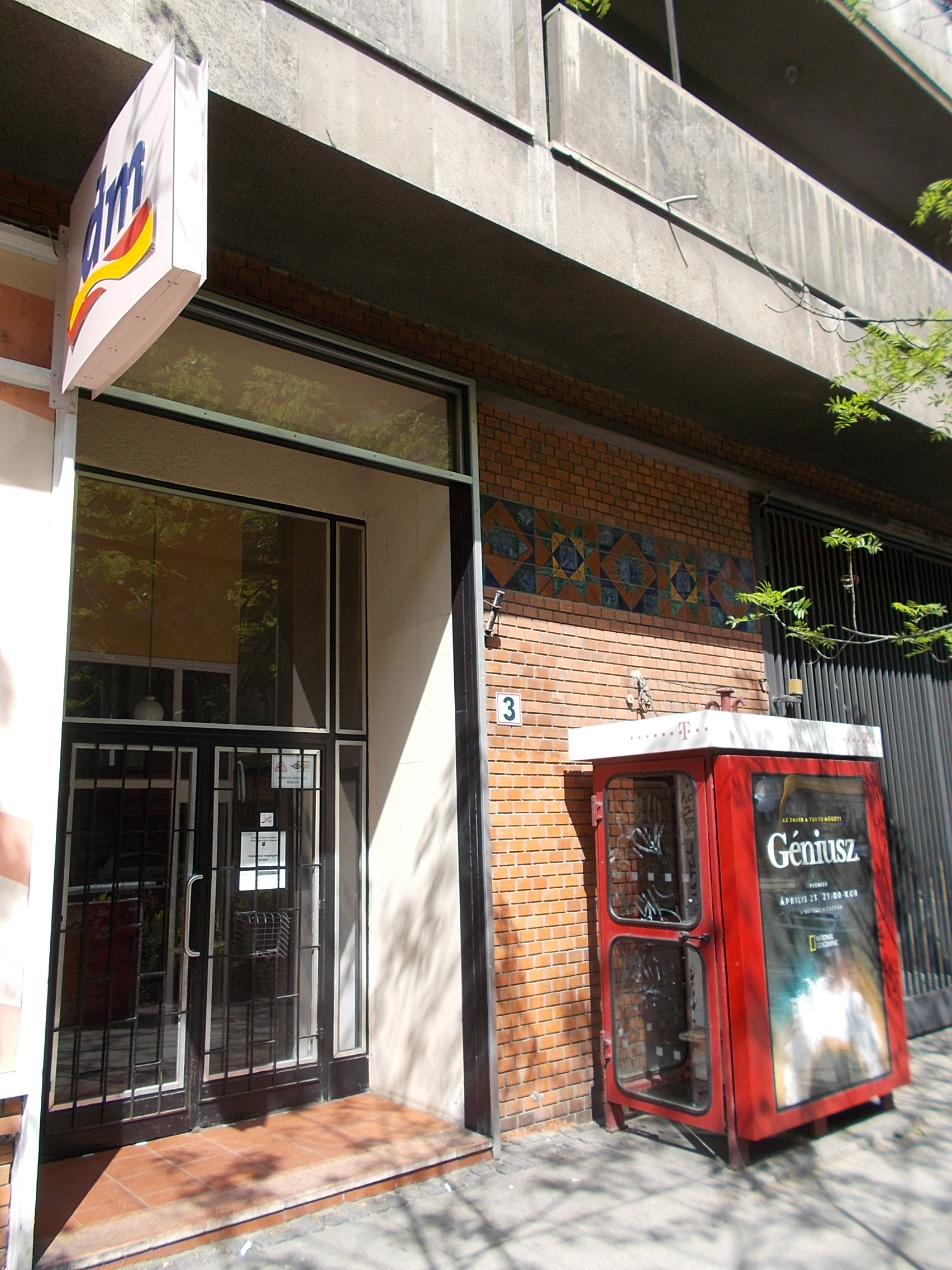 Entrance phone booth and ceramic. - 3 Bartók Béla út, Szentimreváros neighbourhood, Budapest District XI.